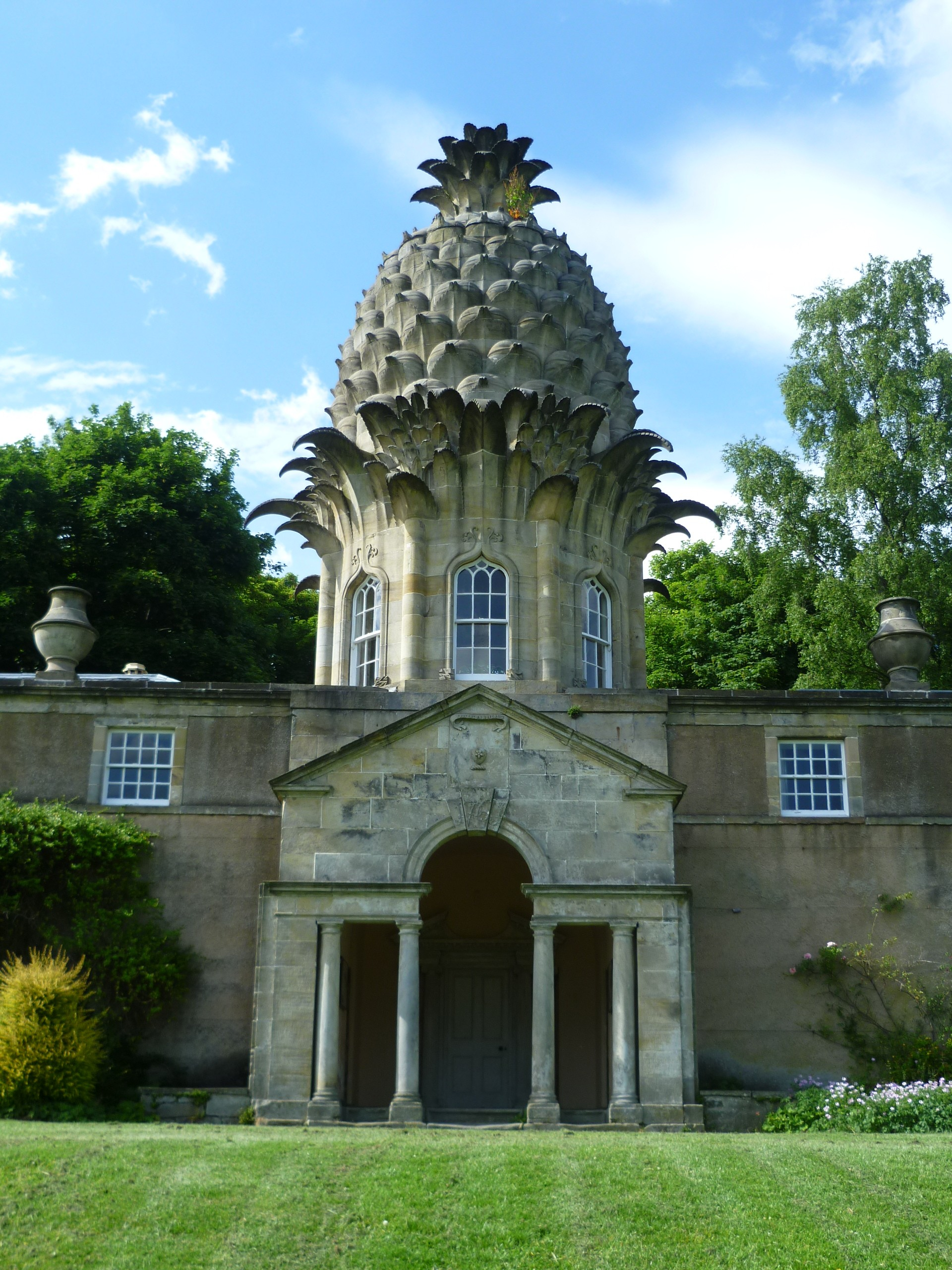 Dunmore Pineapple, Dunmore Park near Airth